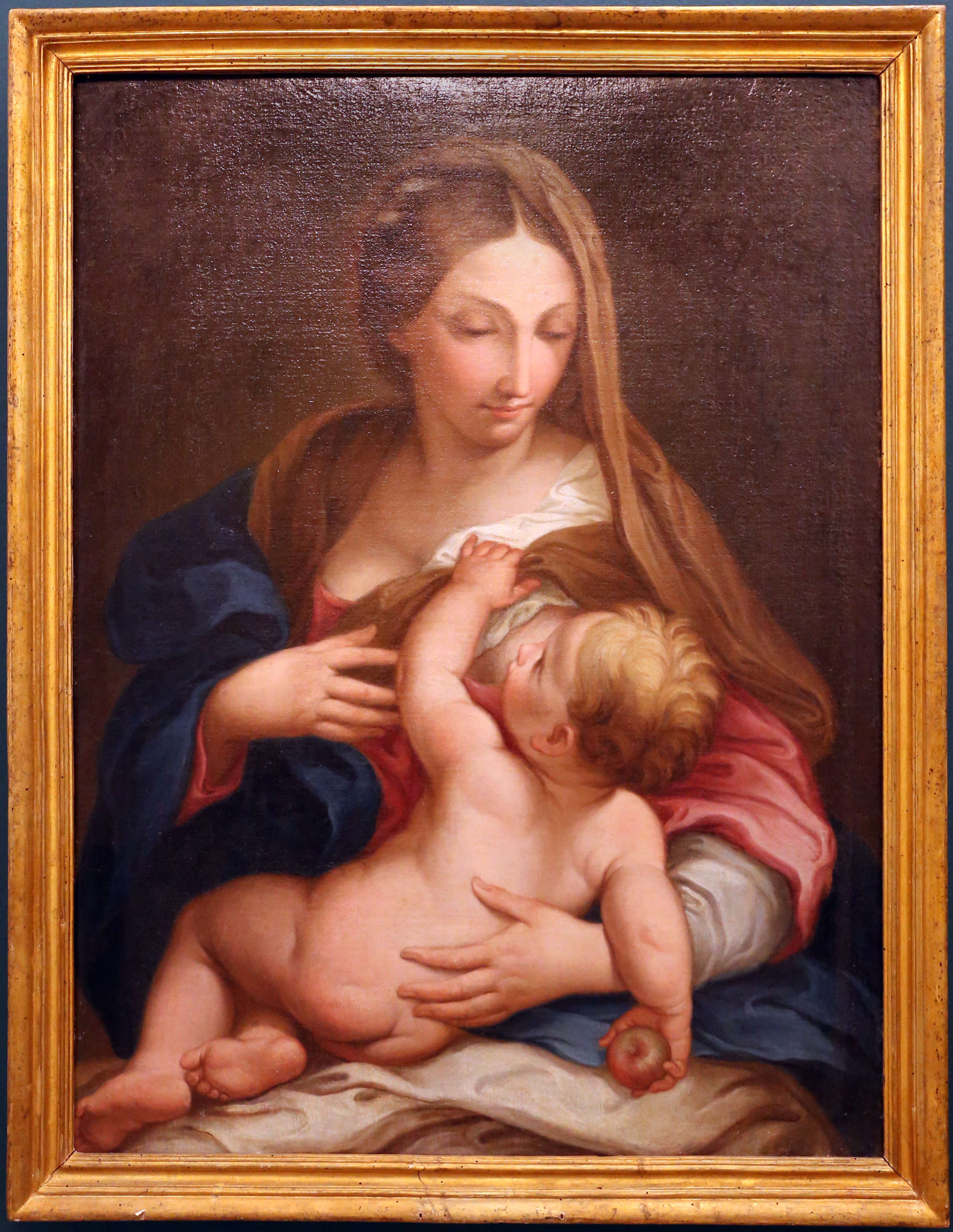 Misericordia exhibition in Senigalllia (2016)